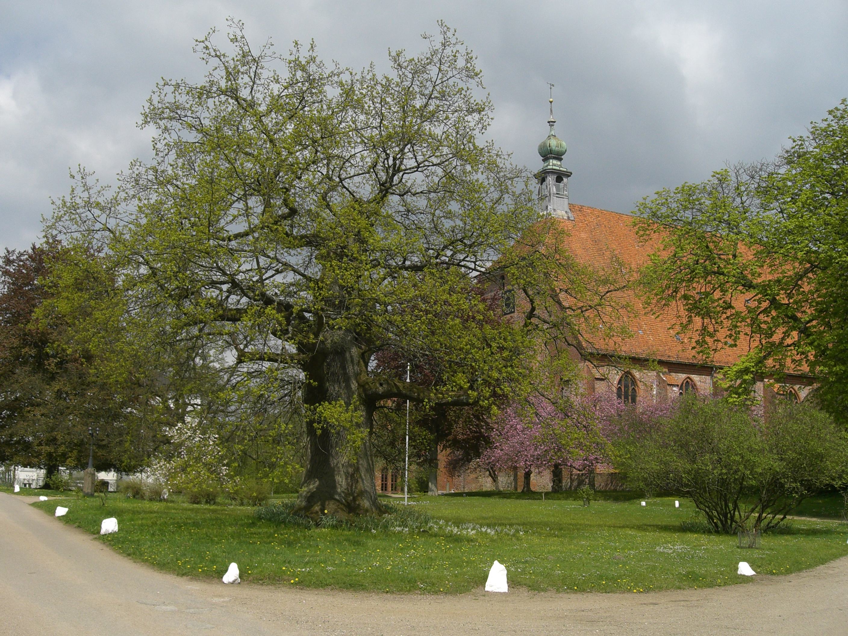 Ancient Oak Tree and church of Preetz priory, Preetz, Schleswig-Holstein, Germany